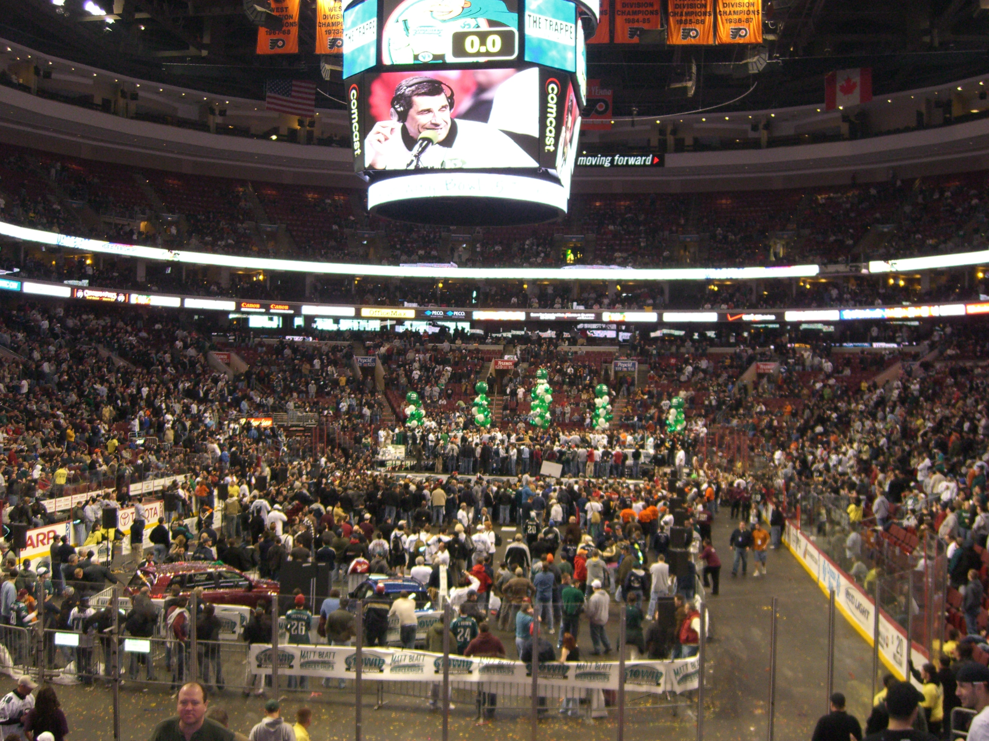 The five finalists for the final two minutes were: 182 wings - Joey Chestnut (World) 170 wings - Patrick Bertoletti (World) 169 wings - Sonja Thomas (World) 167 wings - Gentleman Jerry (Philly) 138 wings - US Male (Philly).